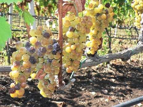 Vigna di Moscato di Siracusa